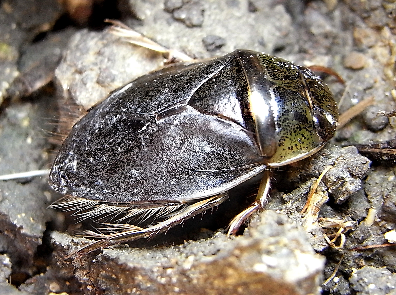 Ilyocoris cimicoides